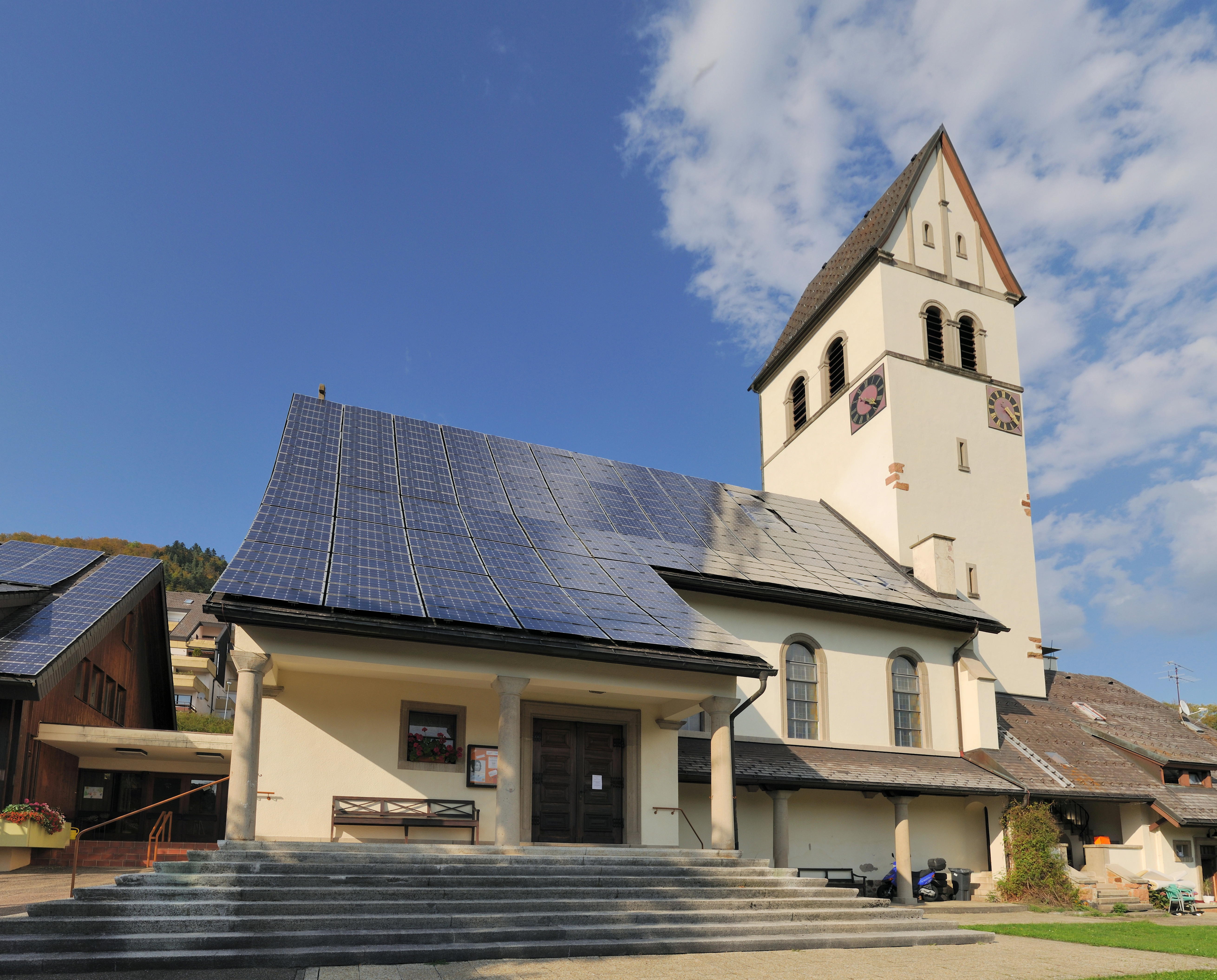 Schönau: Mountain Church (Protestant Church)